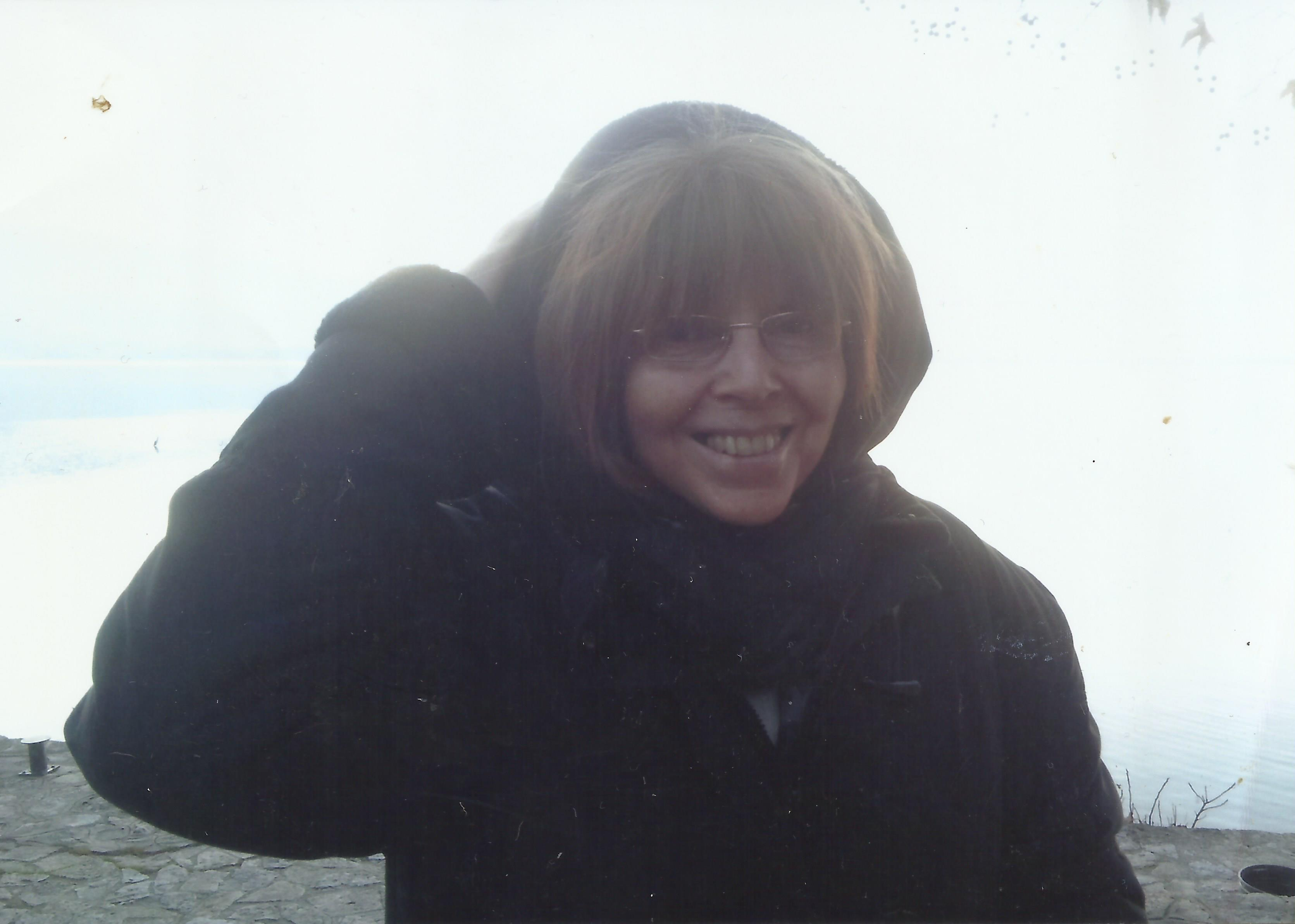 Shlomit C. Schuster Photo, Taken in 2013